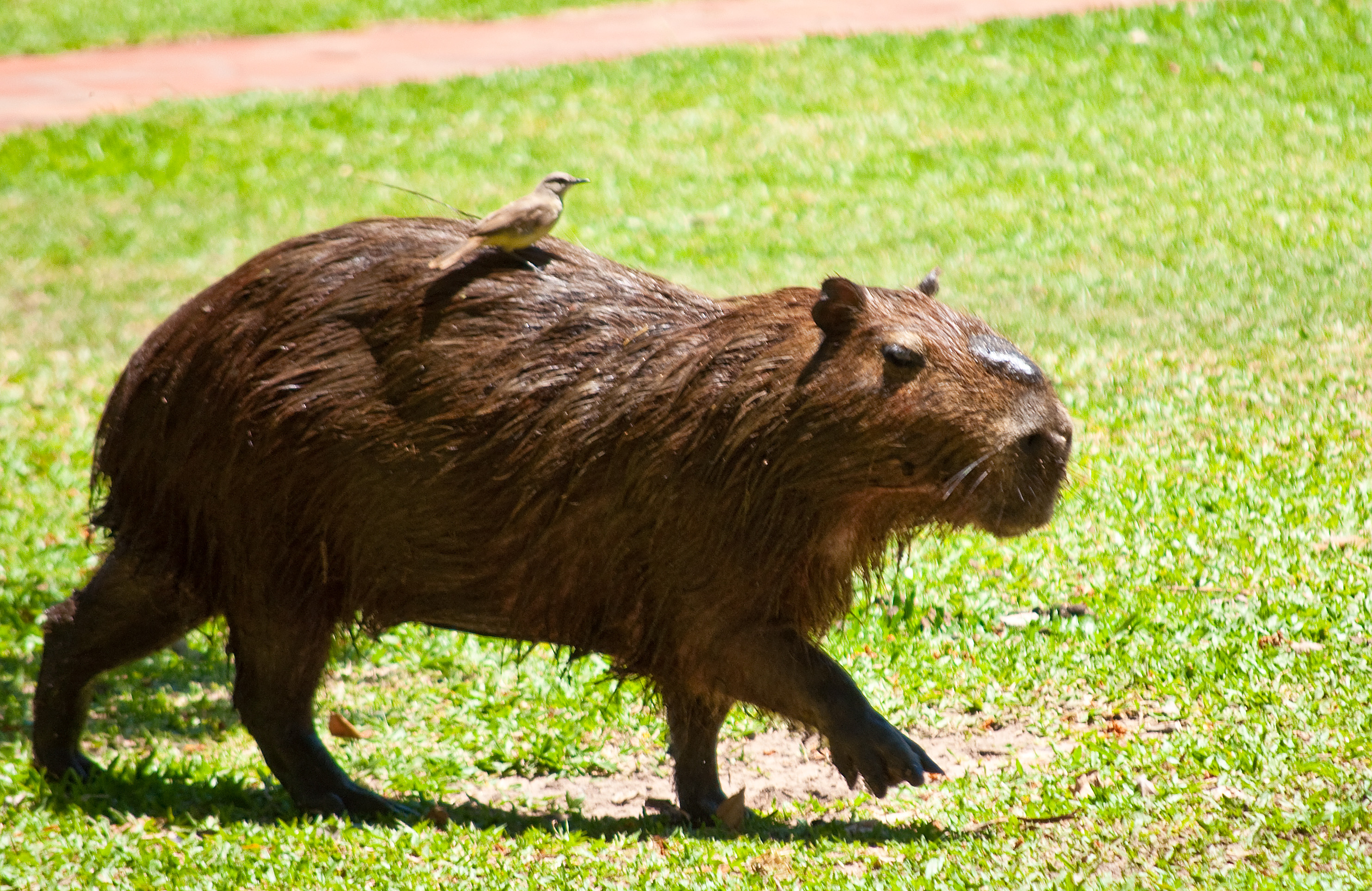 Capybara with its Cattle Tyrant, Esteros Del Ibera, Corrientes, Argentina, 2nd. Jan. 2011